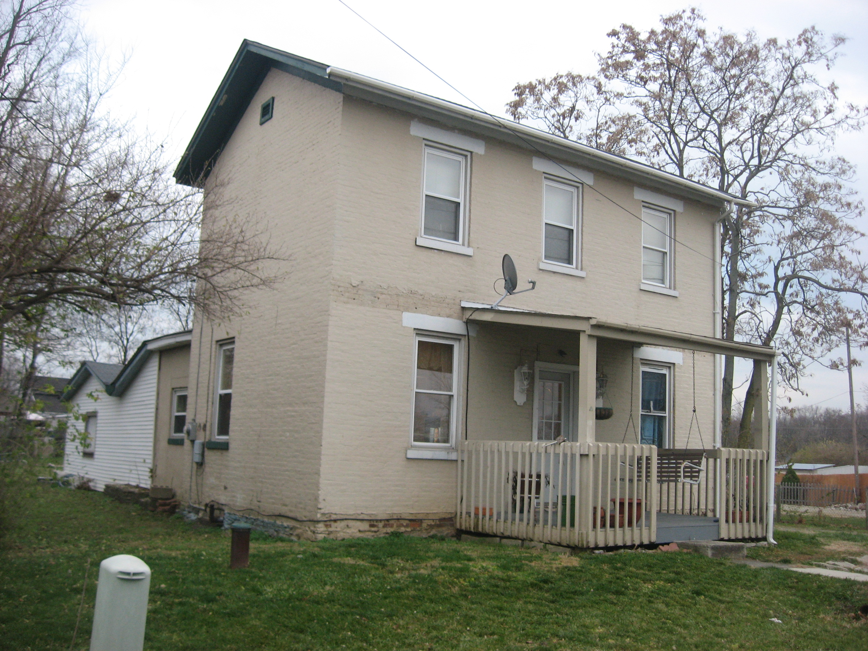 Front and northern side of the Augspurger Paper Company Rowhouse 2, located at 1692 Wayne-Madison Road in Woodsdale, Ohio, United States. Built in 1868, it is listed on the National Register of Historic Places.